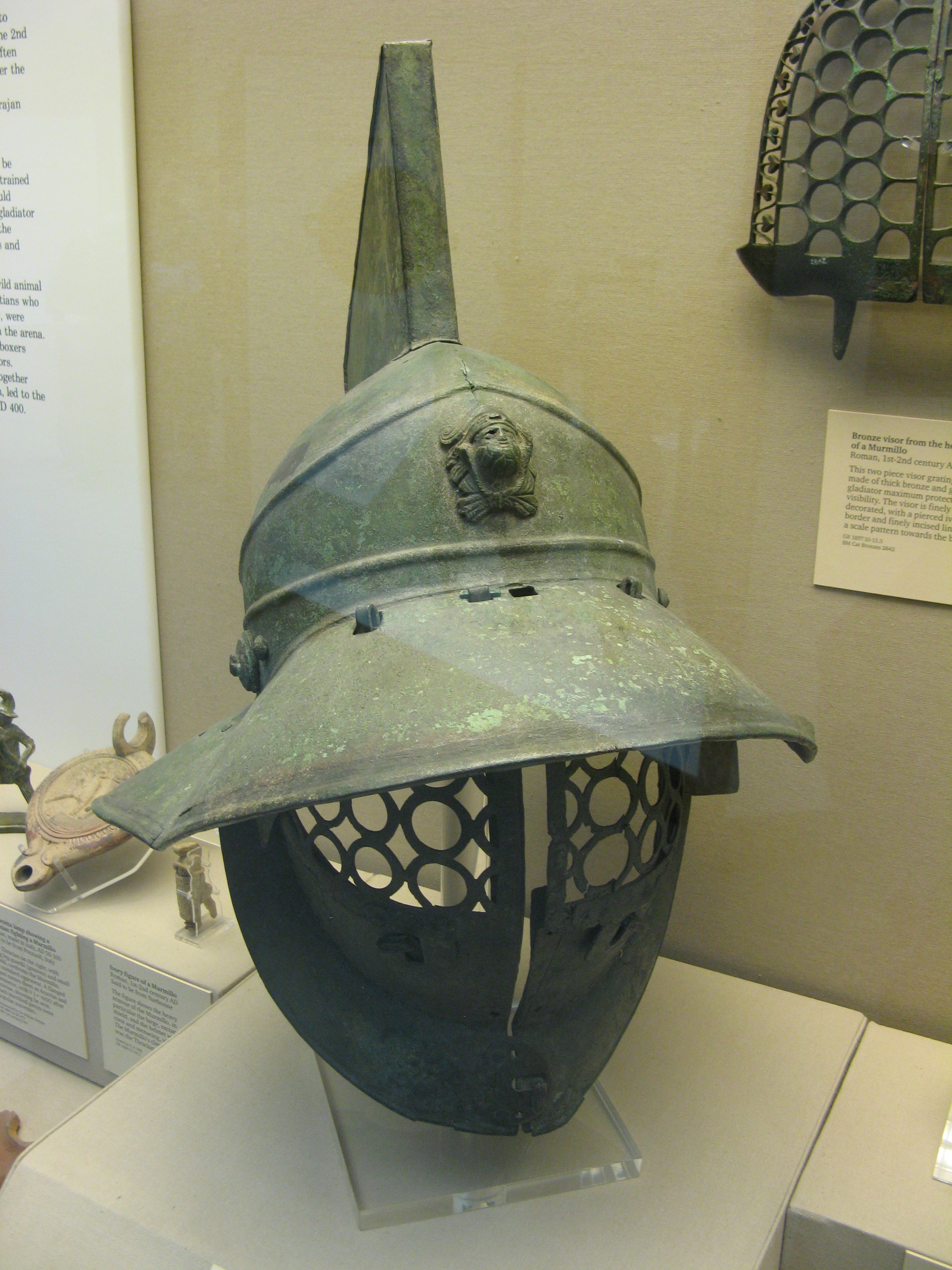 Gladiator Helmet Did anyone else read those Eyewitness History books when they were younger? I had a bunch, and I remember this very helmet from the book on gladiators. It's in the British Museum, along with a whole bunch of other stuff I recognize from those lavishly illustrated books.ref